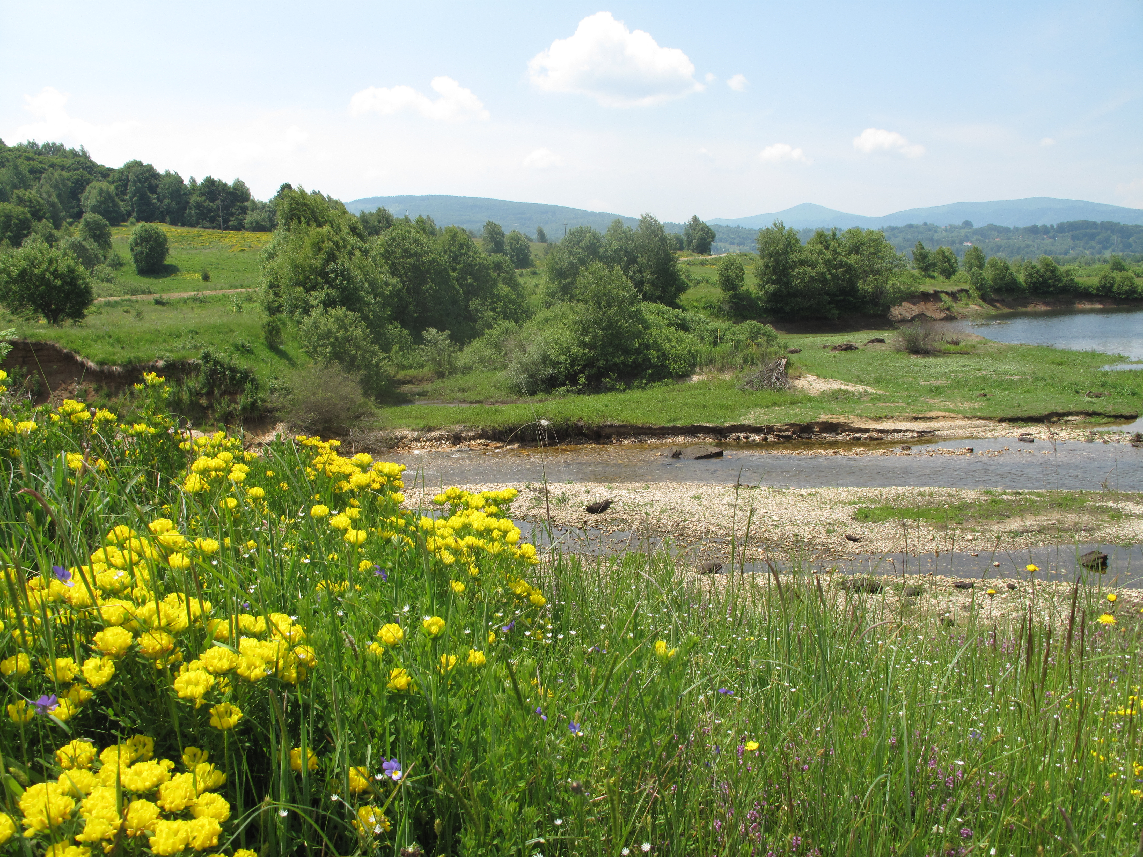 Landscape of Vlasina lake, habitat of Heterogynis zikici with Chamaecytisus hauffelli (host plant) present